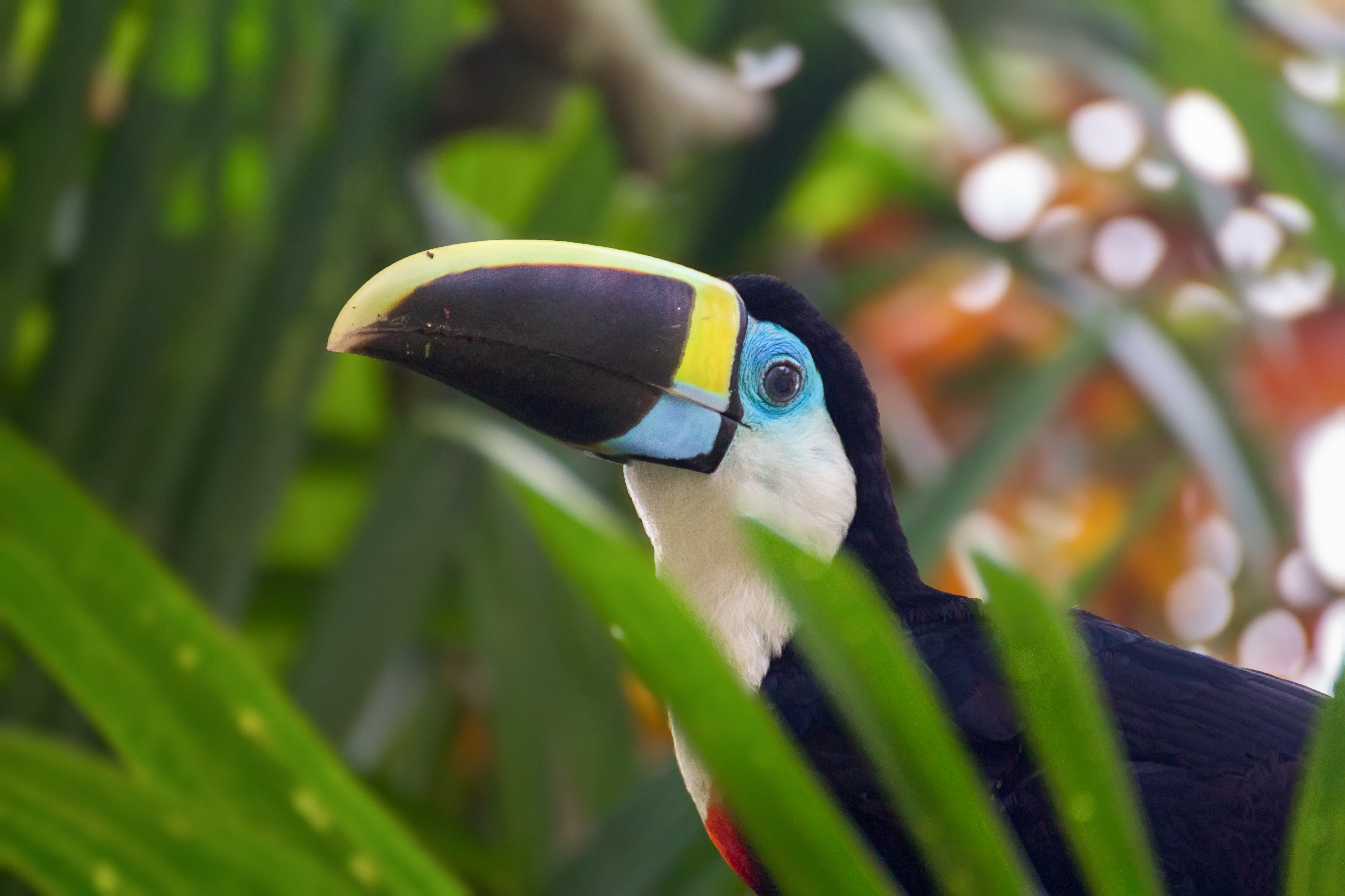 White-throated Toucan (Ramphastos tucanus cuvieri), Boca de Autana, Amazonas, Venezuela